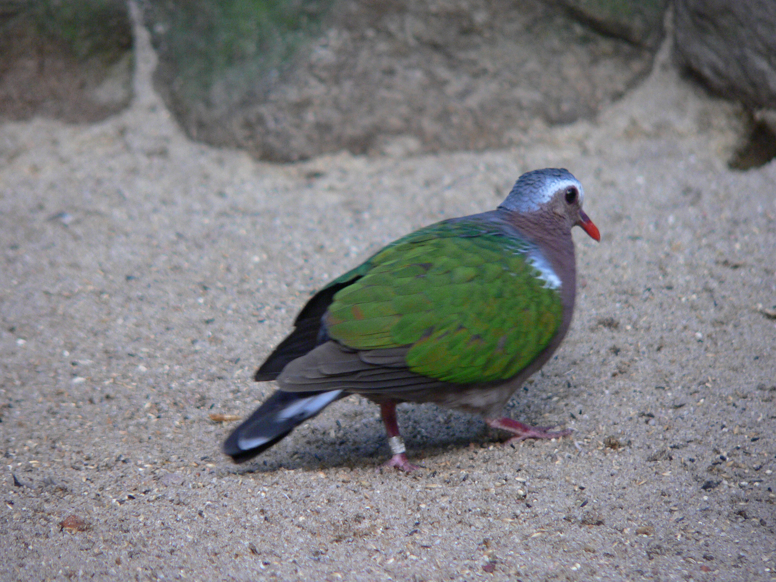 Chalcophaps indica